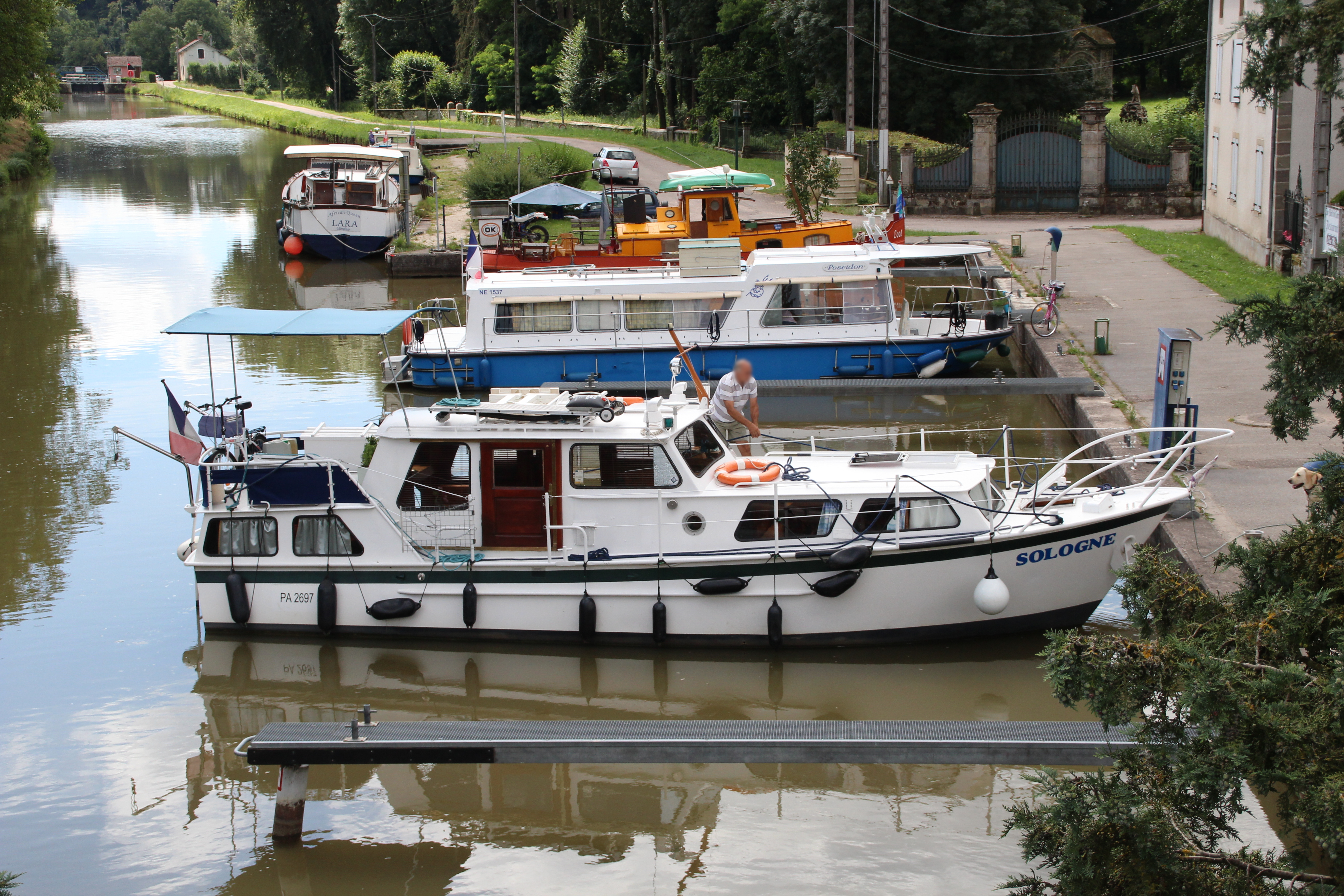 Marina in Corre, France.